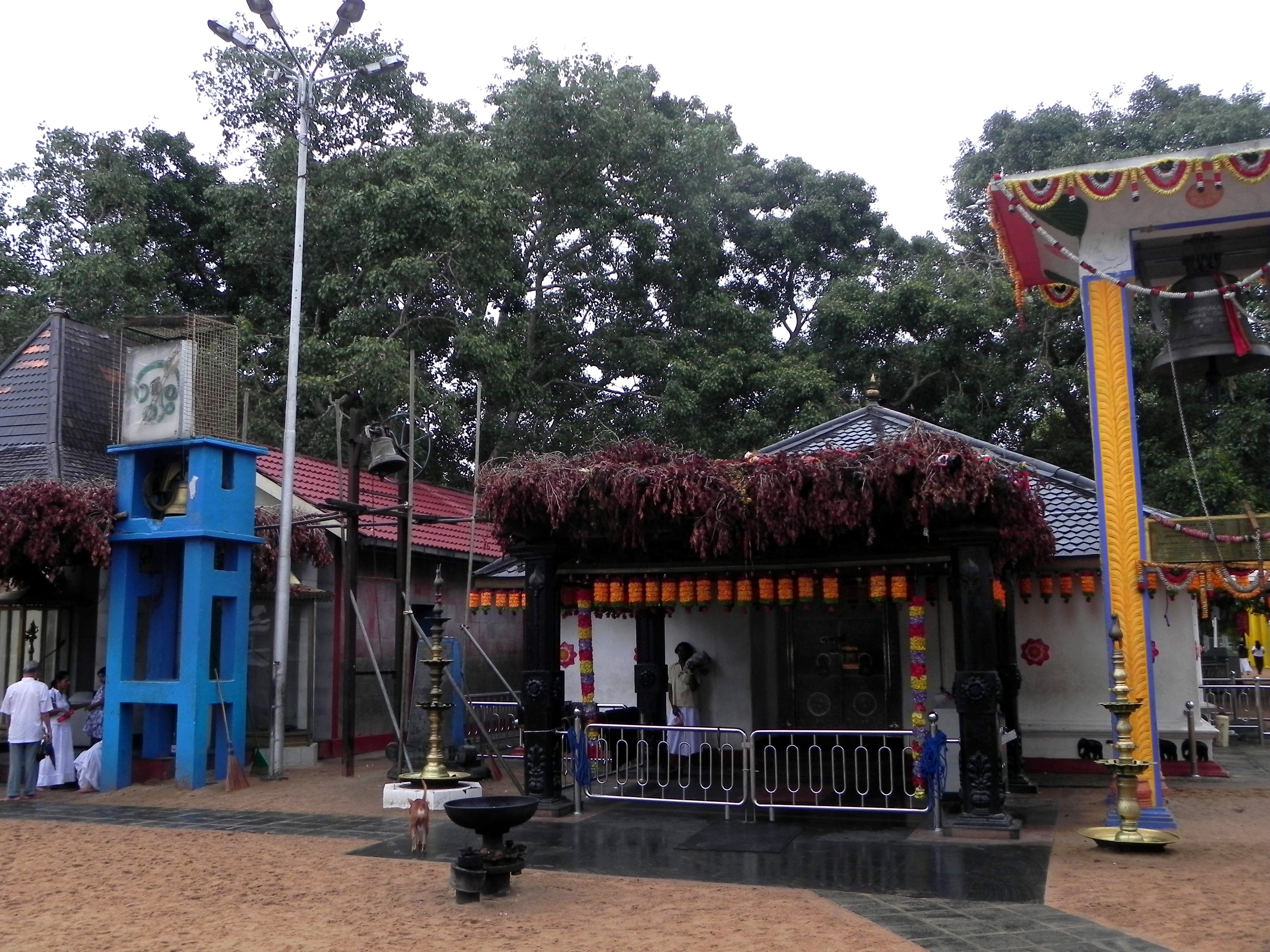 The central Kataragama shrine, with Ganesh shrine in the background